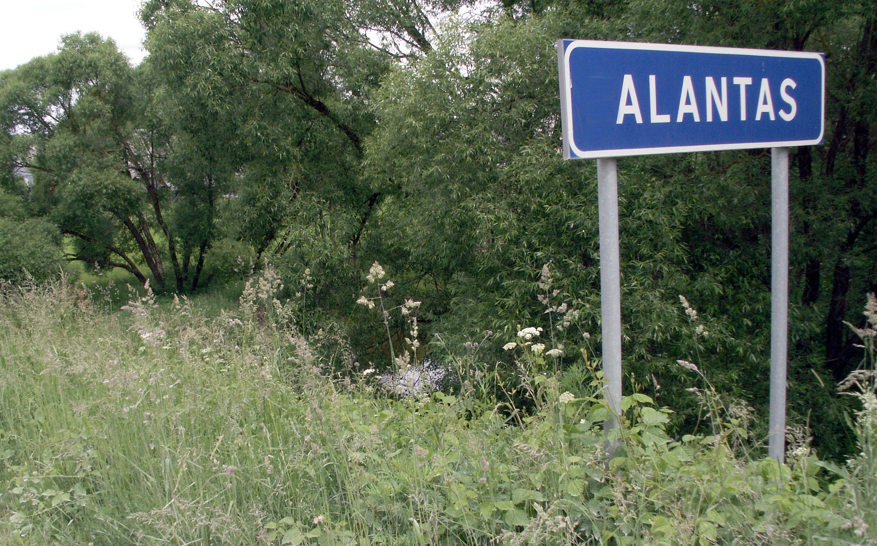 Alantas river near Kartena, Kretinga district, Lithuania